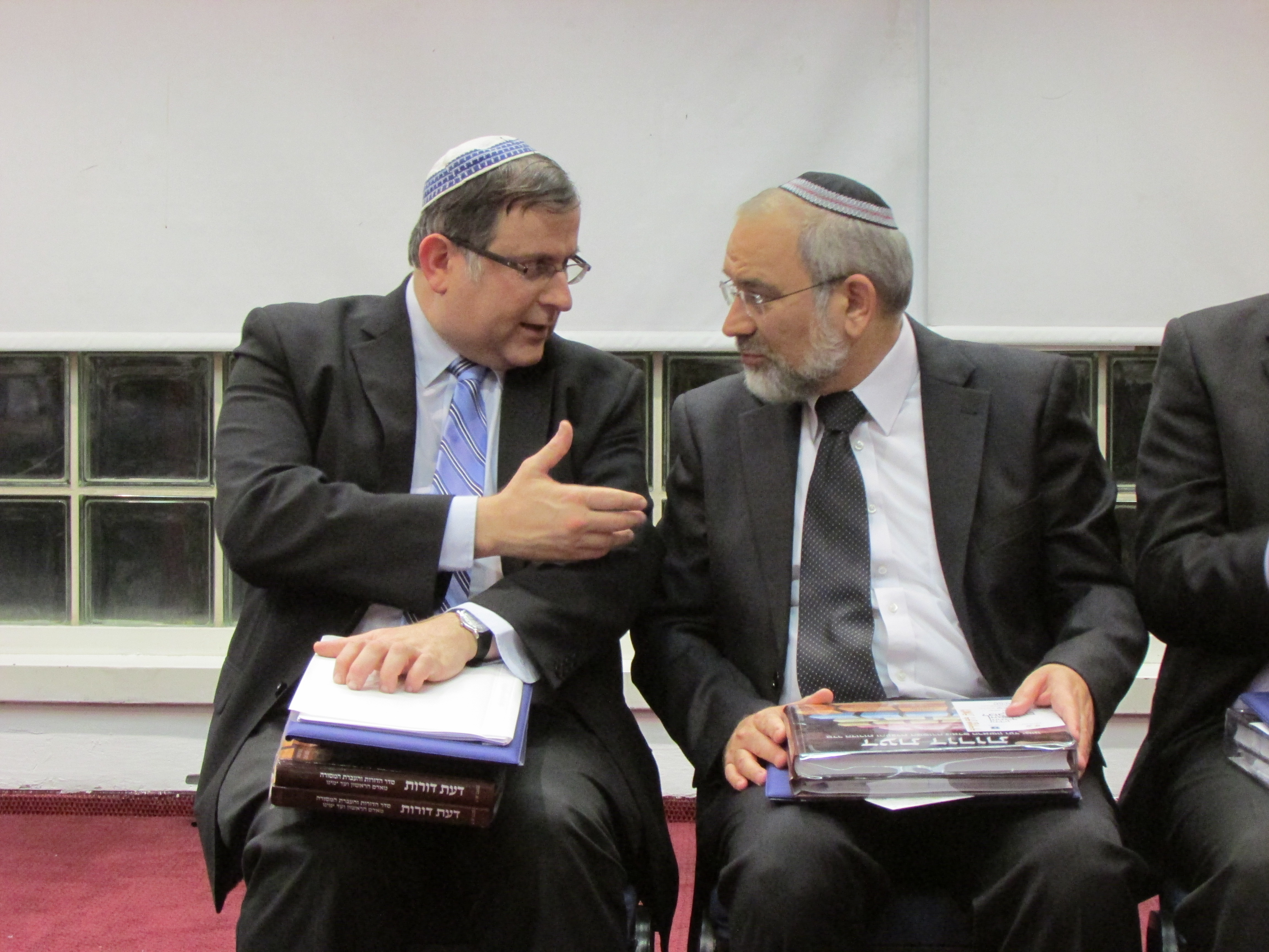 Aviad Hacohen and Itzhak Kraus